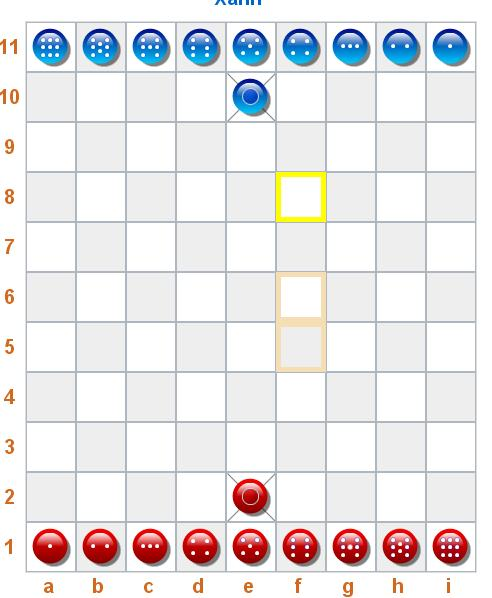 Game plan at the beginning.